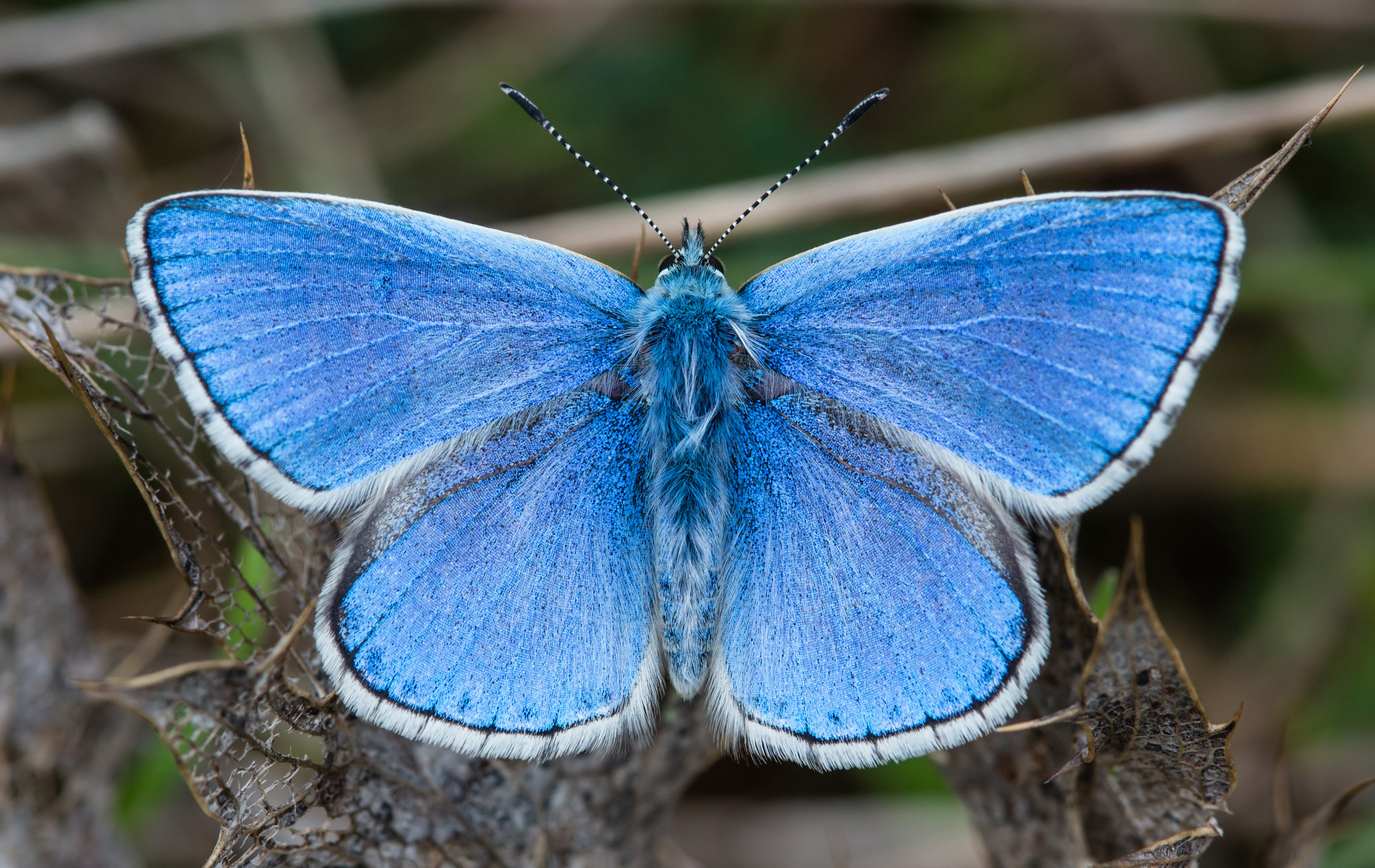 A male Adonis blue (Polyommatus bellargus) butterfly in Foissac, Aveyron, France.